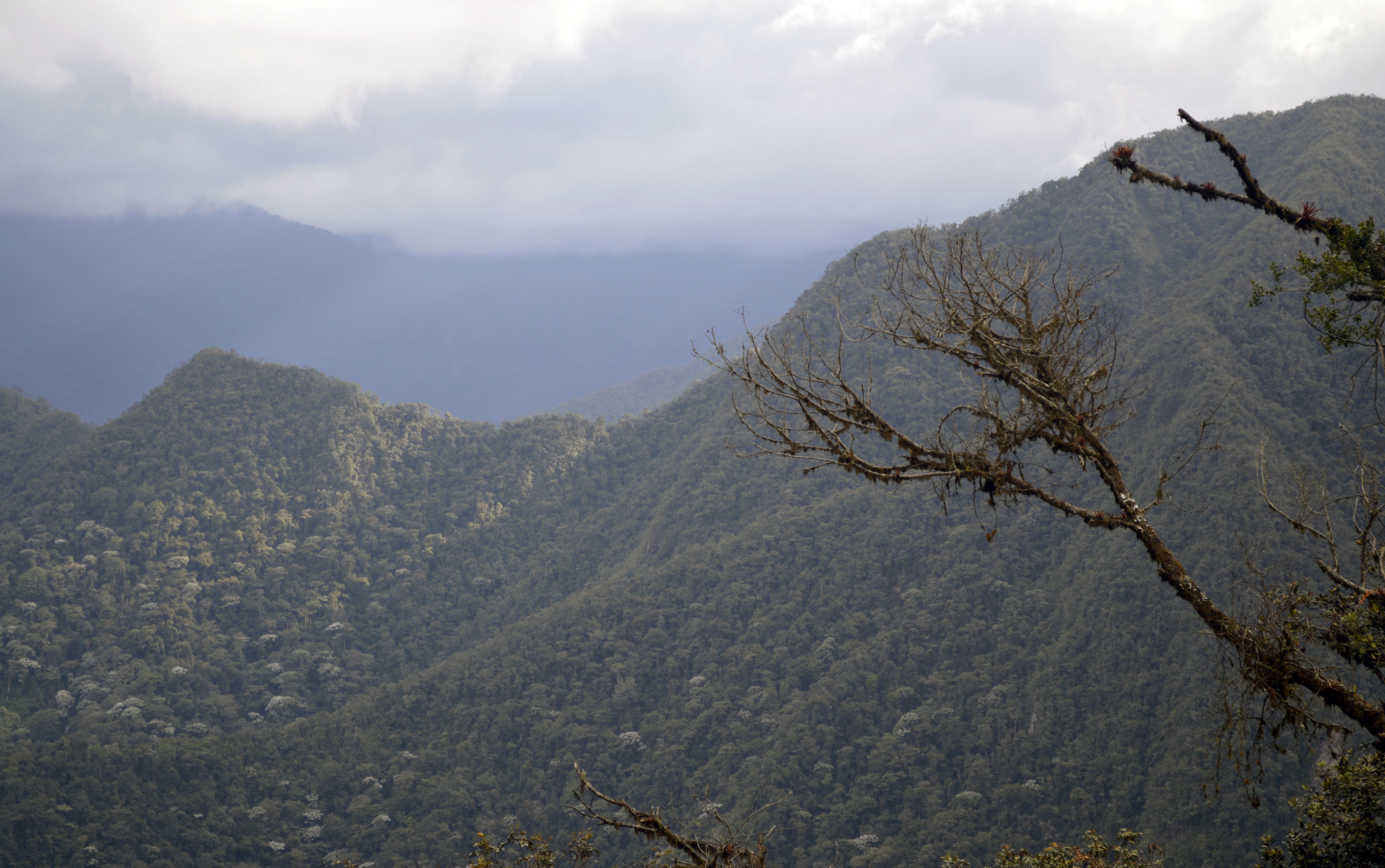 Andean Forests, Vereda Sanguino, Santurban-Salazar Nature Park, municipality of Salazar de las Palmas